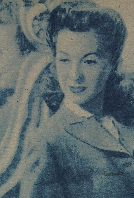 Spanish Actress Luchy Soto